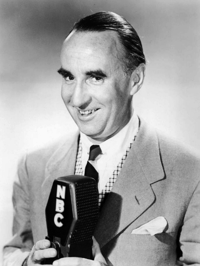 Photo of radio and television personality, writer and composer Walter O'Keefe.